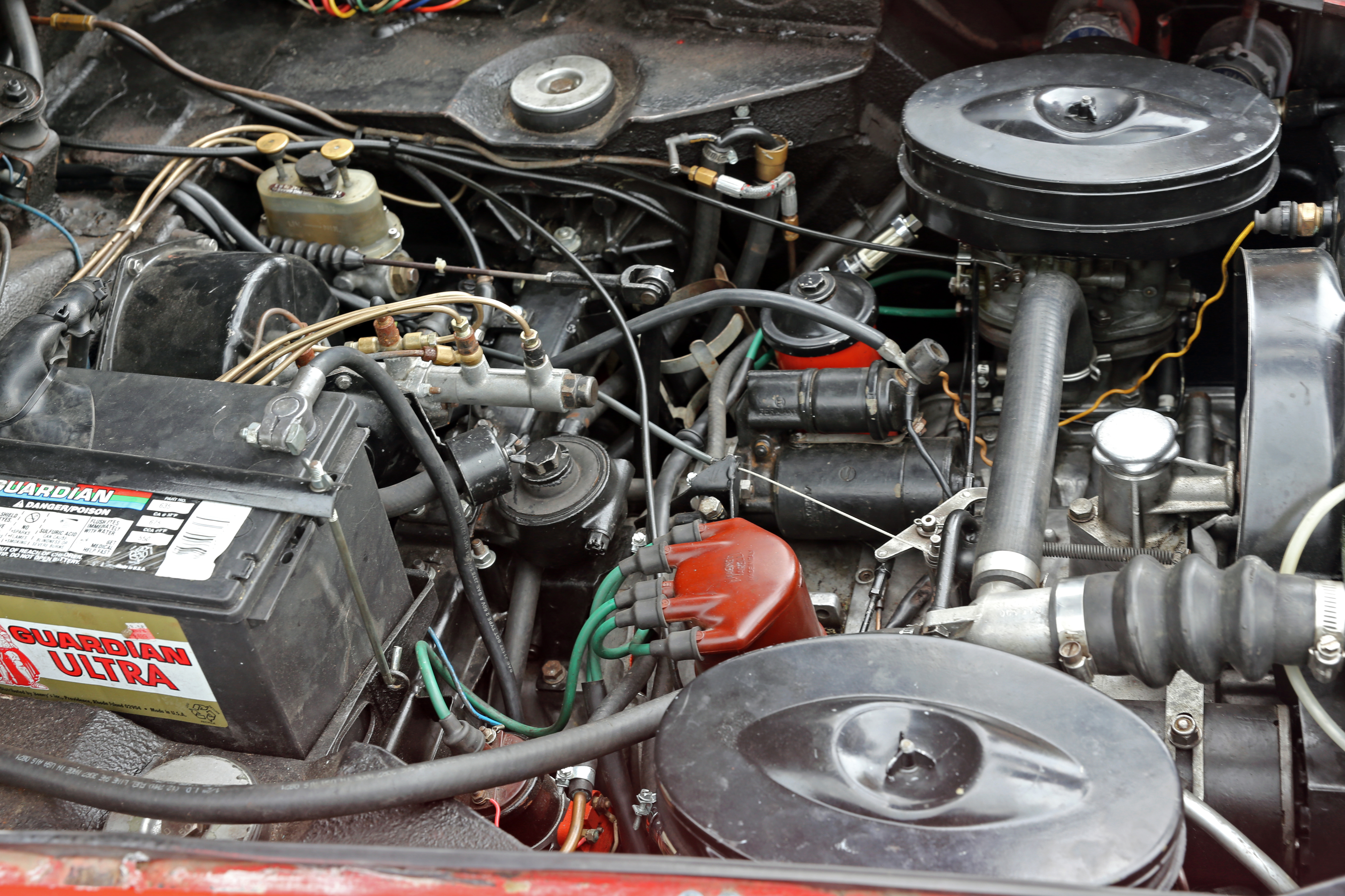 The engine of a sixties' Lancia Flavia Convertibile (by Vignale) at the 2014 Lime Rock Gathering of the Marques attached to the Concours d'Élegance. I believe that this is a fairly late 1.8, it's clearly the twin-carb version. Anyone know if it is possible to tell from the engine room?